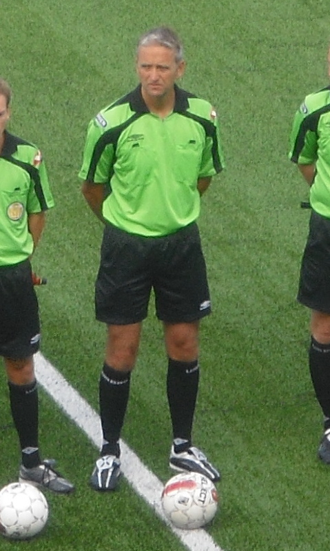 Norwegian football referee Jonny Ditlefsen